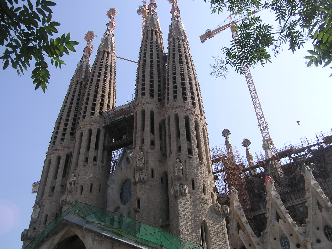 Sagrada Familia in Barcelona, Spain This picture was taken by me (Filip Maljkovic) on June 29th, 2004 at 10:32, when I was on a trip to Barcelona.